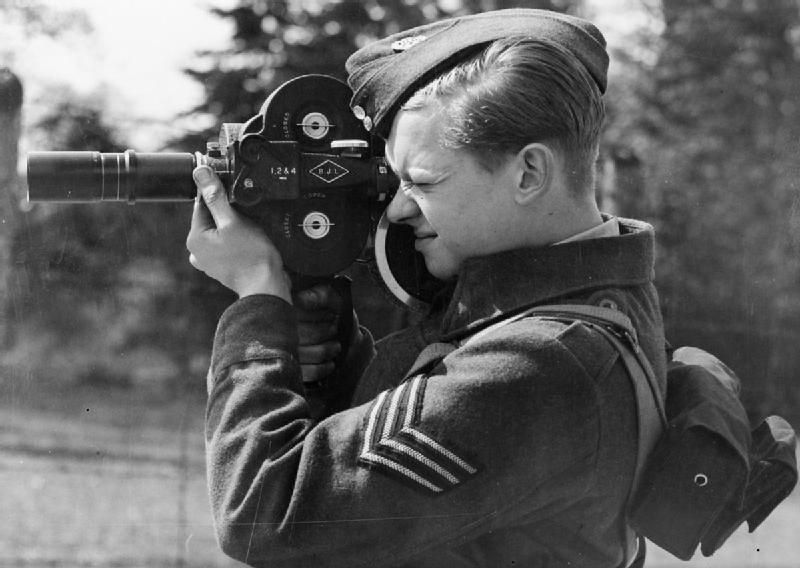 Royal Air Force Film Production Units, 1941-1945. A cameraman of the RAFFPU poses, focussing a Bell & Howell Eyemo 35mm film camera with a telephoto lens.